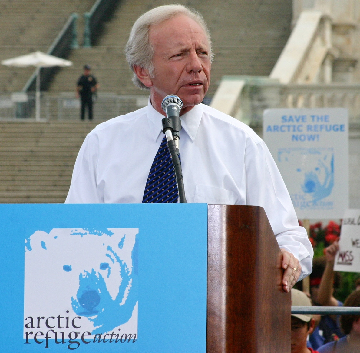 Arctic National Wildlife Refuge: U.S. Senator Joe Leibermann speaks at a 2005 event to keep Alaska wild to save polar bears among other arctic wildlife